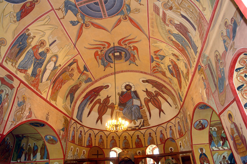 St. Georges church in Qax city of Azerbaijan